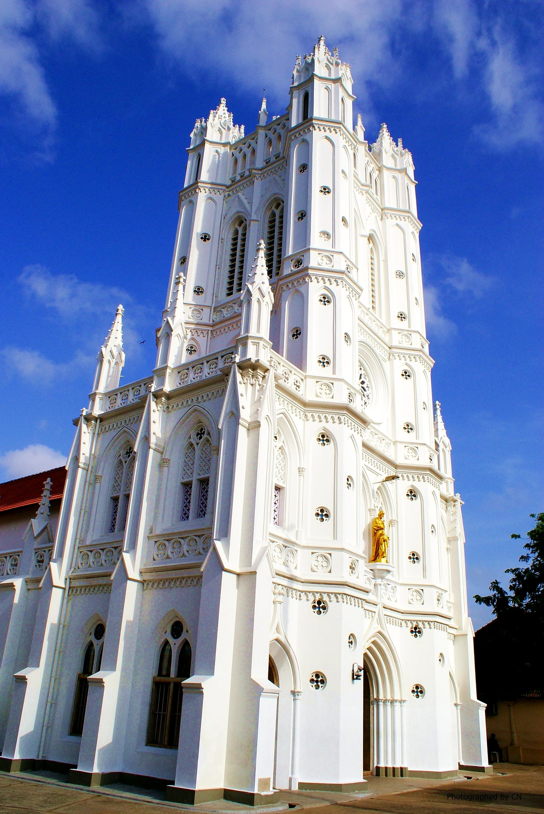 St. Joseph's Metropolitan Cathedral, Trivandrum by Carol Nettar